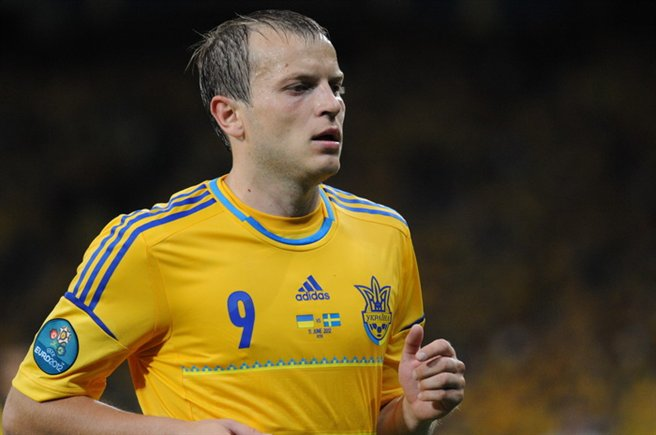 UEFA Euro 2012 match between Ukraine and Sweden that took place in Kiev. Final result was 2:1 (2xShevchenko - Ibrahimović)